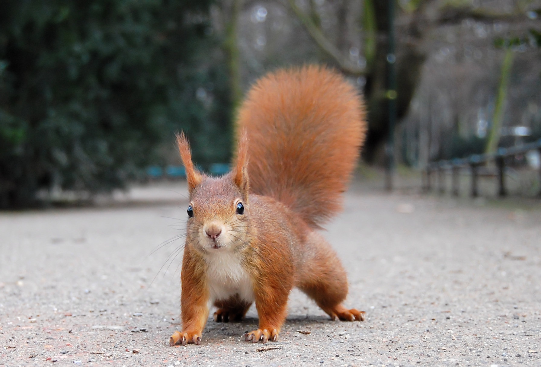 Red Squirrel with pronounced winter ear tufts in the Hofgarten in Düsseldorf, Germany.